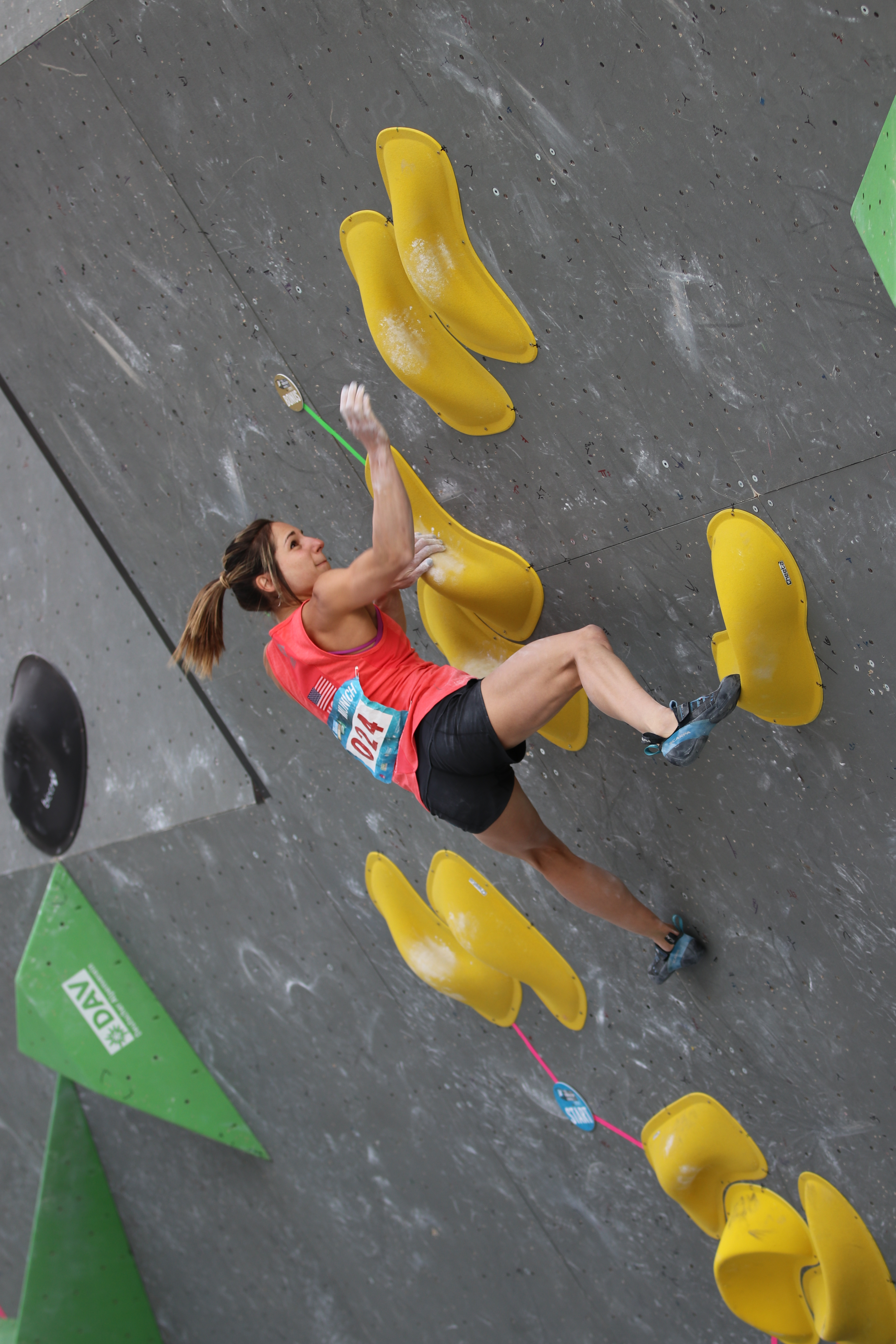 Alex Puccio, sports climber from the USA, at the Boulder Worldcup 2017 in Munich, Germany